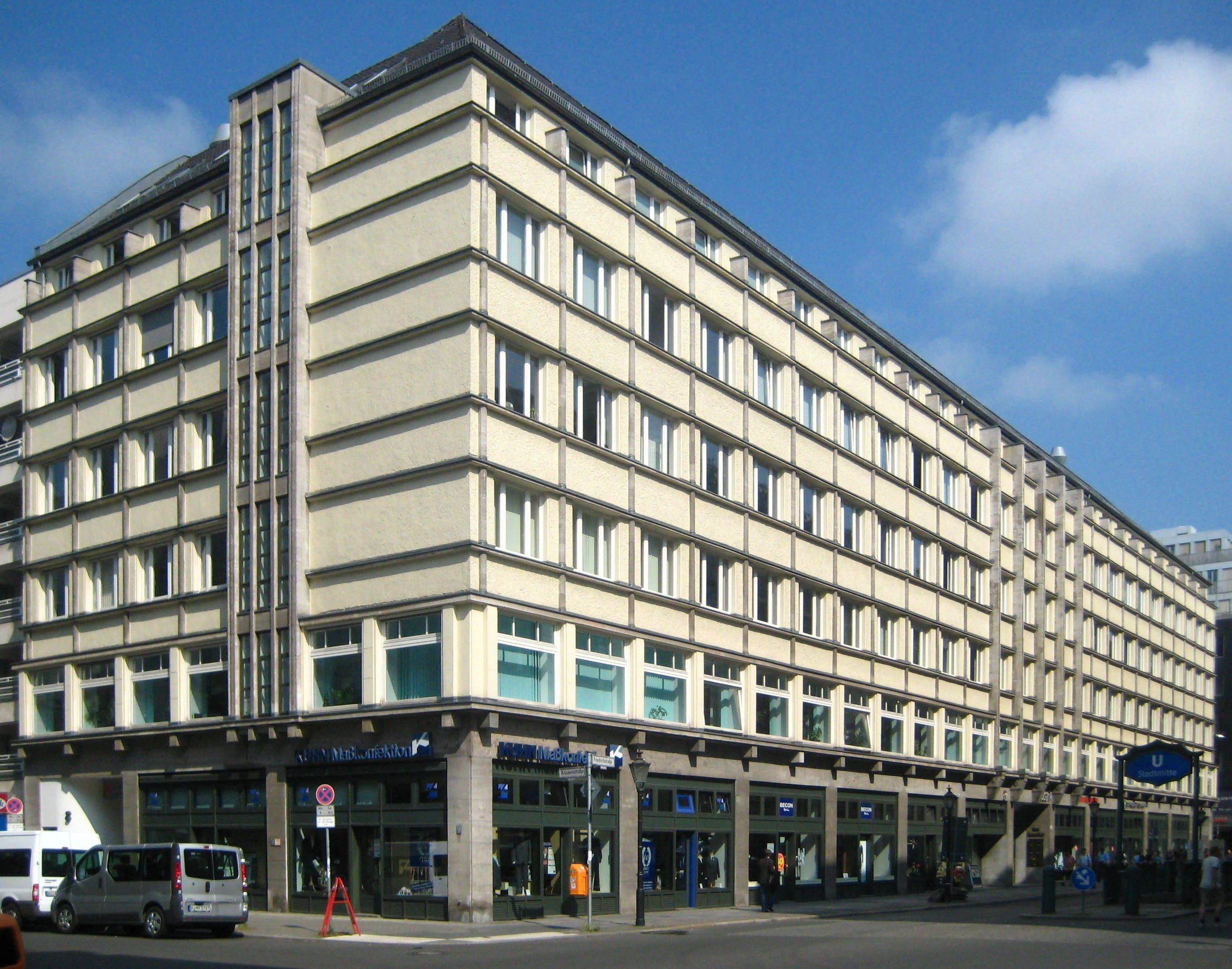 The "House Friedrichstadt" at Friedrichstraße No. 194-198 in Berlin-Mitte, built 1934 to 1935 by Gerhard Mensch. The office and commercial building occupies the whole western block front along Friedrichstraße between Krausenstraße (on the left) and Leipziger Straße. Although built in the Nazi era, it shows a modern structure indebted to the architecture of the 1920s. The engaged columns of the facade point out the steel skeleton structure. In the interior, ceilings with the original abstract motives have been preserved. The offices and stores of the house are rented by numerous companies. The building has been designated a historic landmark.